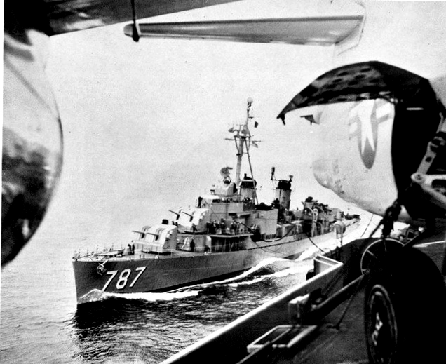 The U.S. Navy destroyer USS James E. Kyes (DD-787) refueling from aircraft carrier USS Midway (CVA-41). The Midway, with assigned Carrier Air Group 2 (CVG-2), was deployed to the Western Pacific from 16 August 1958 to 12 March 1959.